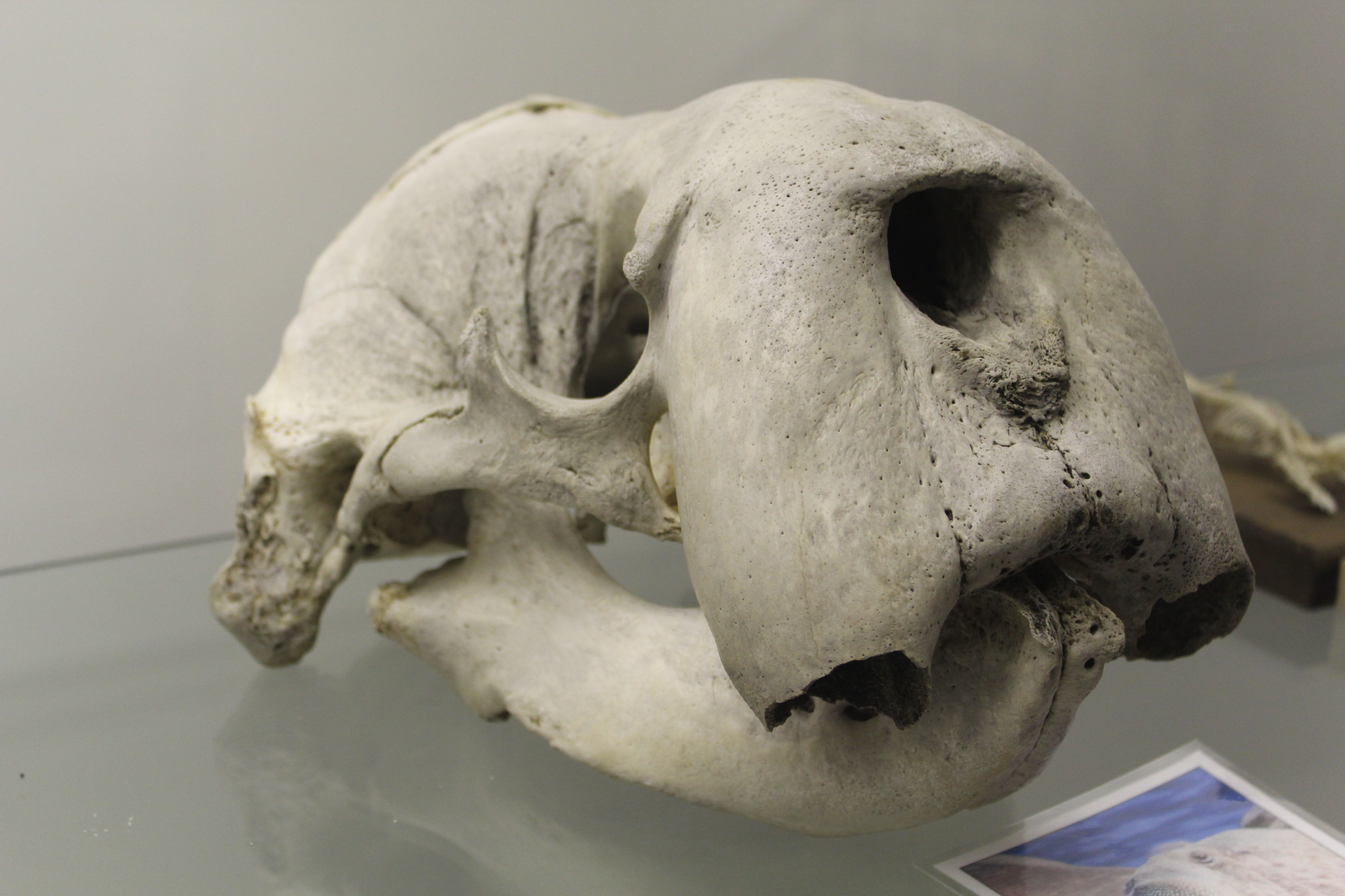 Detusked Walrus (Odobenus rosmarus) skull at the Royal Veterinary College anatomy museum